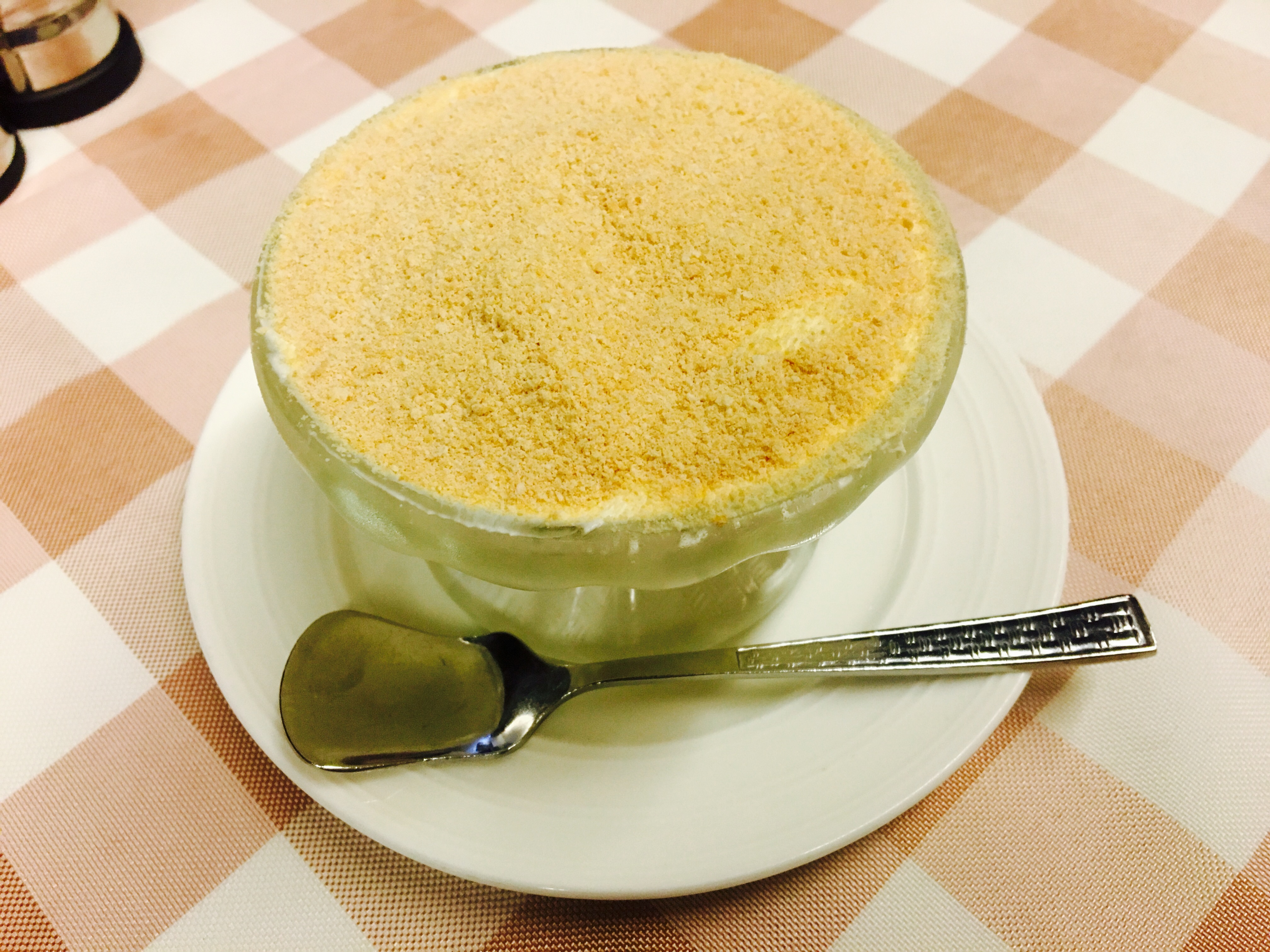 Serradura (Portuguese milk and cream pudding, topped with crumbled biscuits)